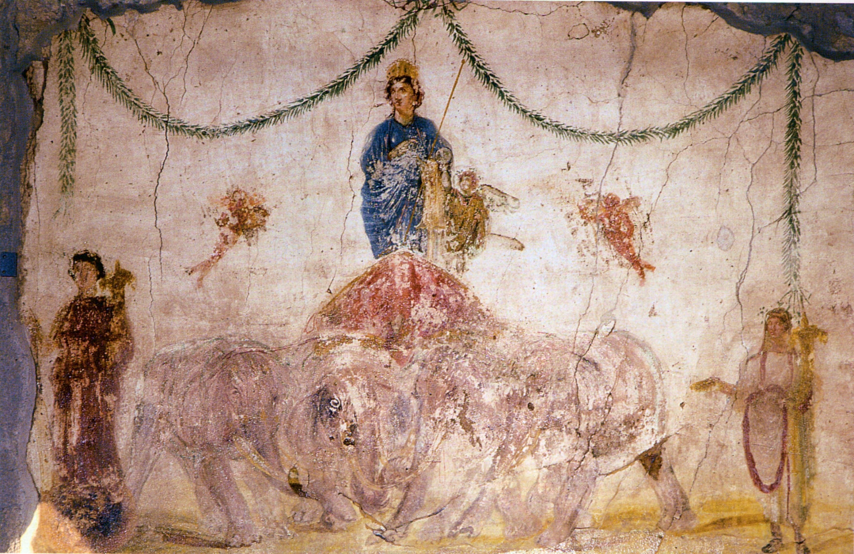 Venus standing on a quadriga of elephants. Roman frecso from the Officina di Verecundus (IX 7, 5) in Pompeii.